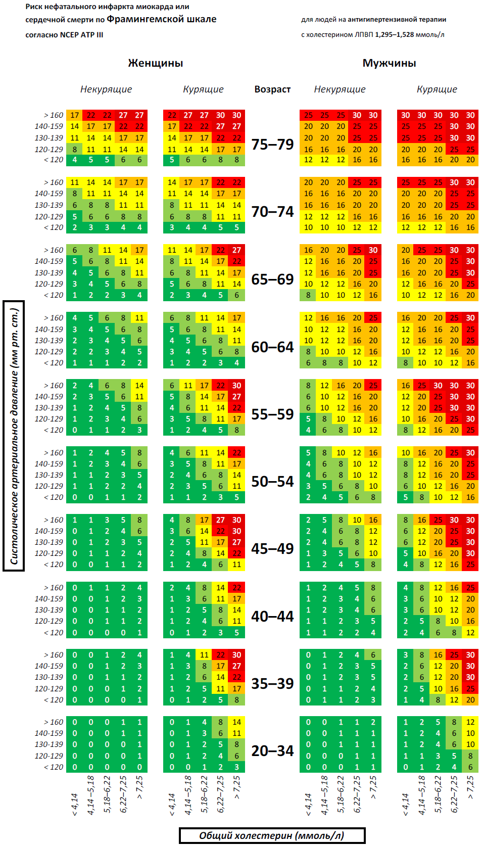 Nonfatal myocardial infarction and death 10-year risk chart for people with HDL cholesterol 50–59 mg/dL (1,295–1,528 mmol/L) and taking PB-lowering medications. According to Framingham score per NCEP ATP 3 (2002).